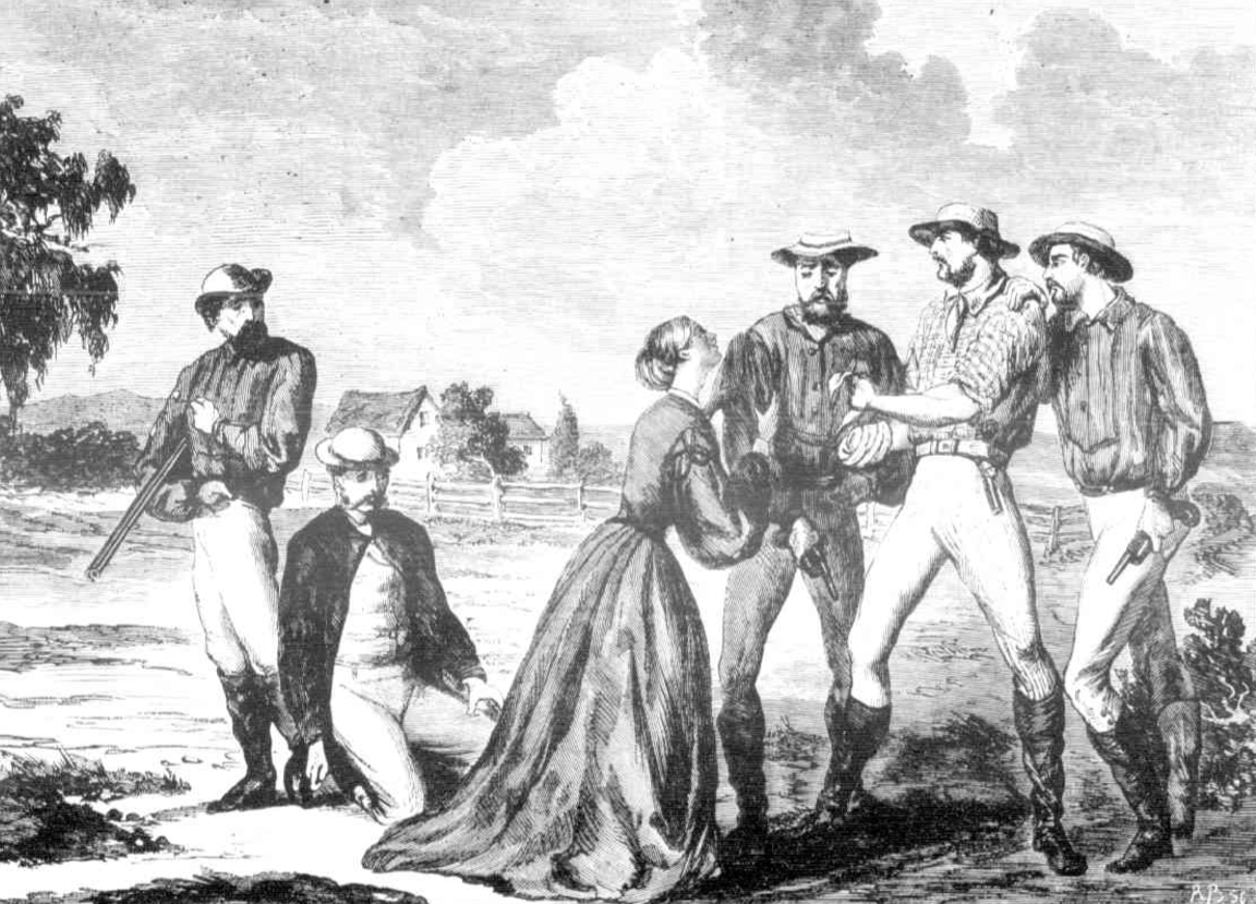 Illustration of the Bluecap gang with Mrs Willis interceding for the life of Mr Doolan.